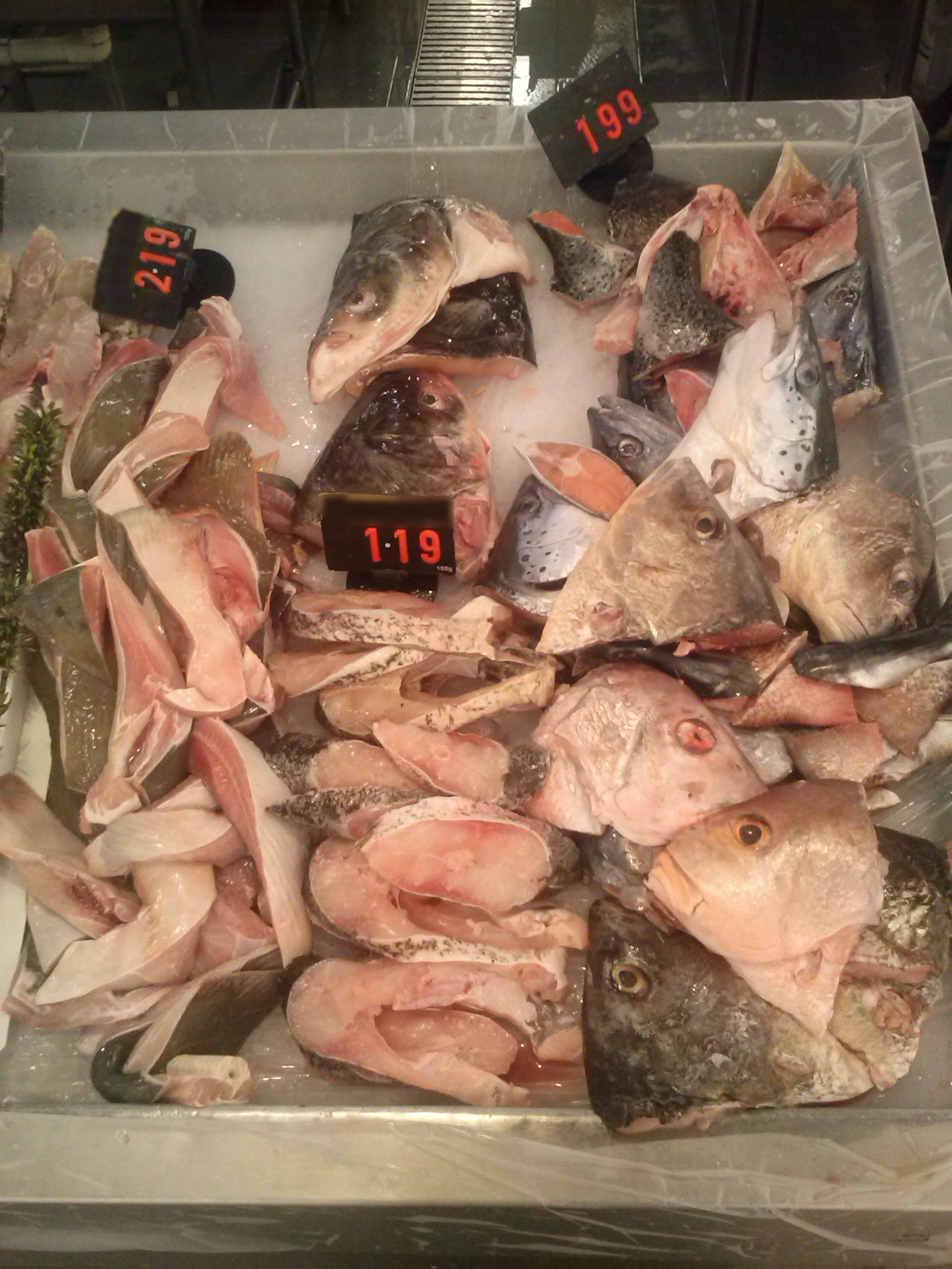 Fish heads for sale in a supermarket.